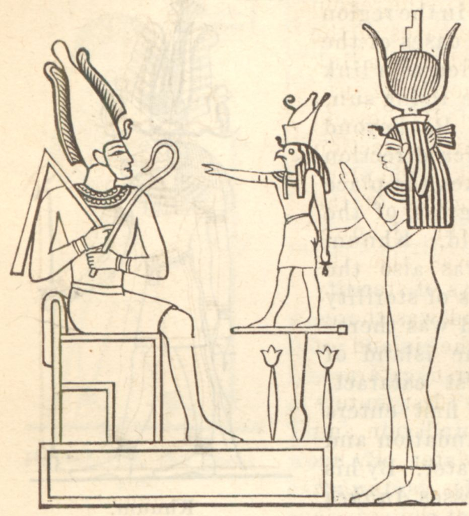 The ancient Egyptian mythological Trinity or Triad: Osiris, Horus and Isis.